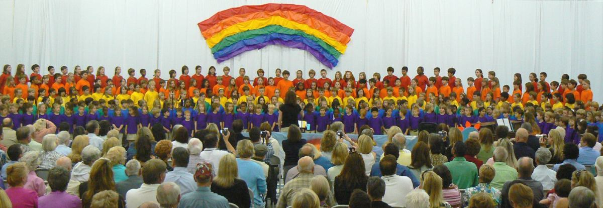 Lower School students at Maclay School, Tallahassee FL, giving a choral performance.